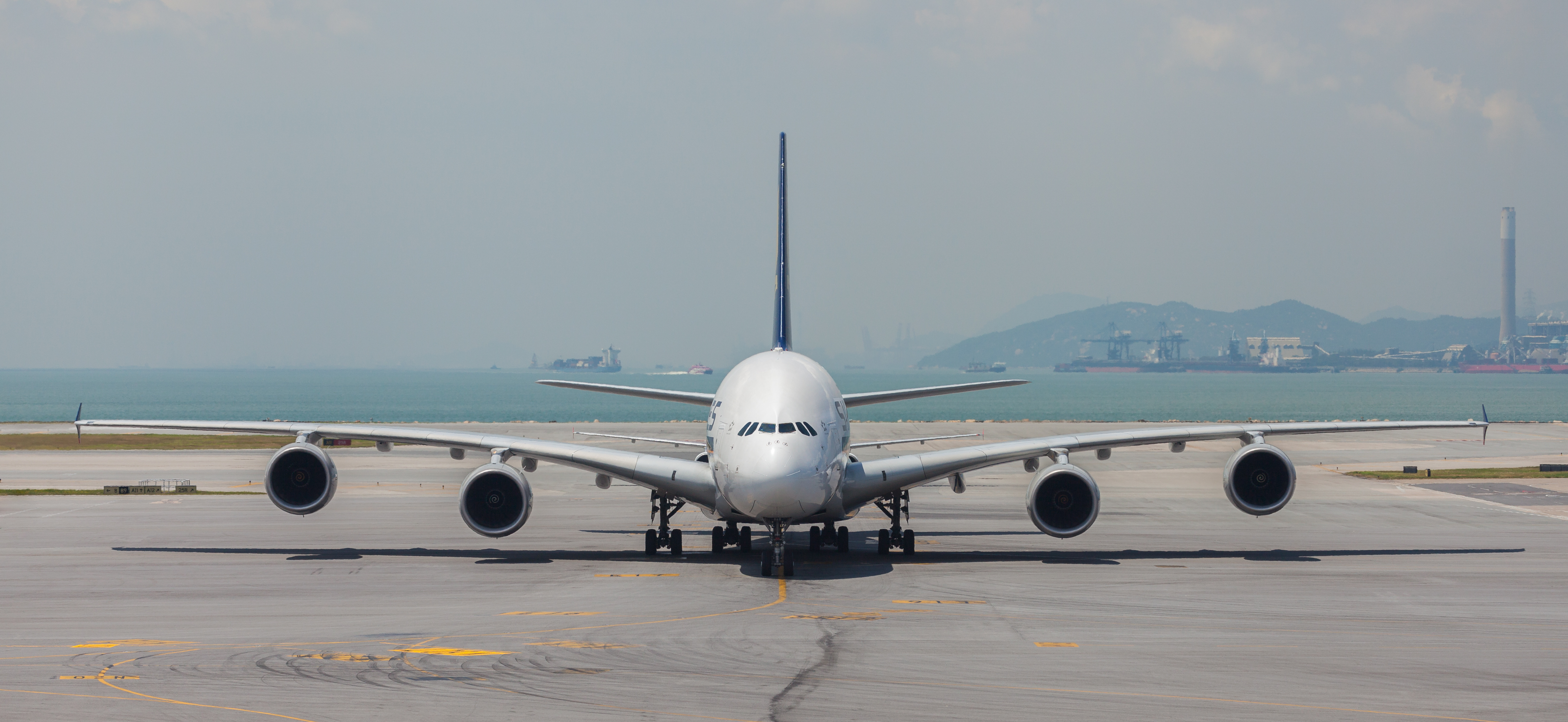 Airbus A380 at Hong Kong Airport